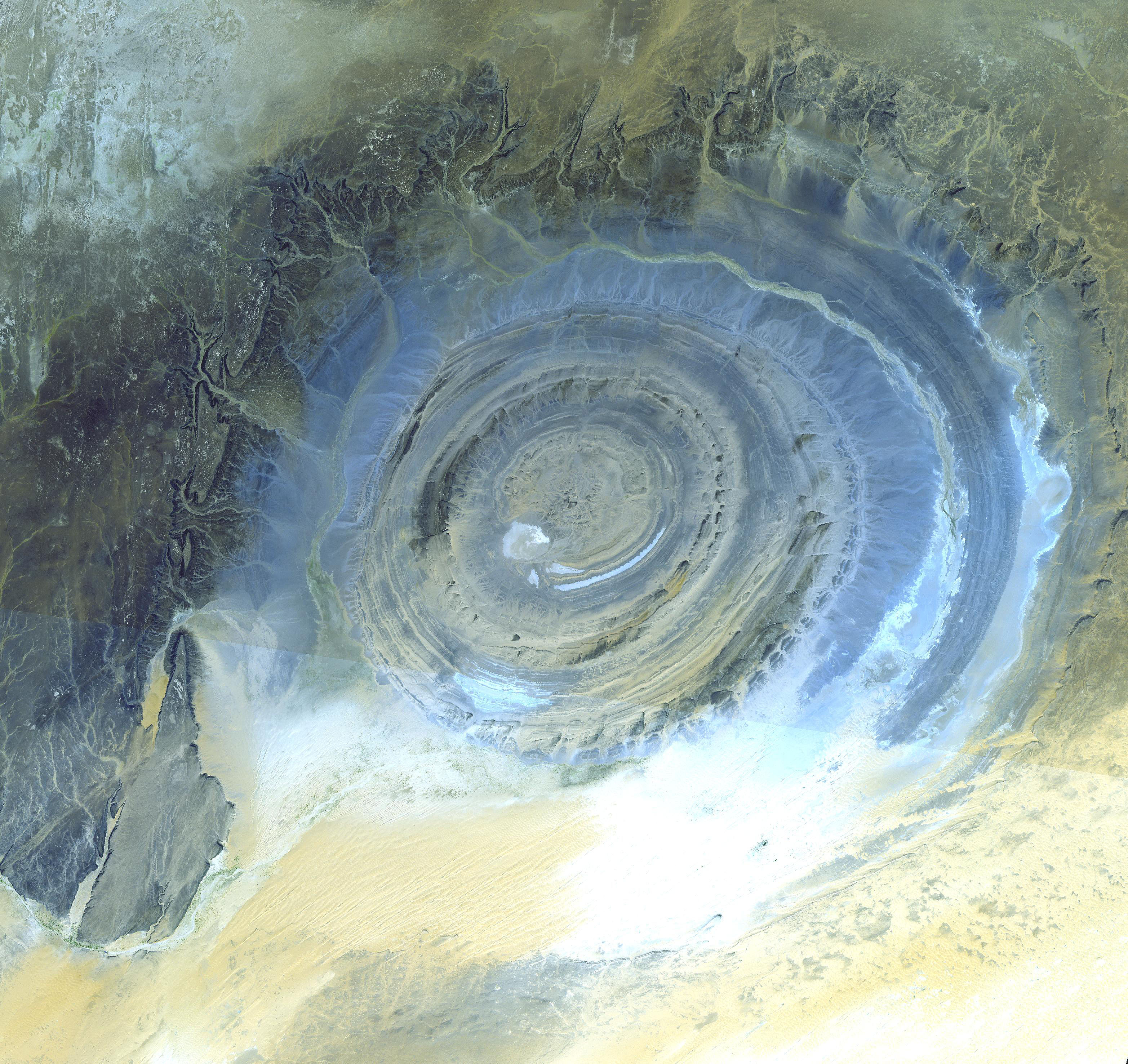 Richat Structure, Oudane, Mauritania - This prominent circular feature in the Sahara desert of Mauritania has attracted attention since the earliest space missions because it forms a conspicuous bull's-eye in the otherwise rather featureless expanse of the desert. Described by some as looking like an outsized ammonite in the desert, the structure [which has a diameter of almost 50 kilometers (30 miles)] has become a landmark for shuttle crews. Initially interpreted as a meteorite impact structure because of its high degree of circularity, it is now thought to be merely a symmetrical uplift (circular anticline) that has been laid bare by erosion. Paleozoic quartzites form the resistant beds outlining the structure. The image was acquired October 7, 2000, covers an area of 45 x 47 km, and is located at 20.9 degrees north latitude and 11.6 degrees west longitude.